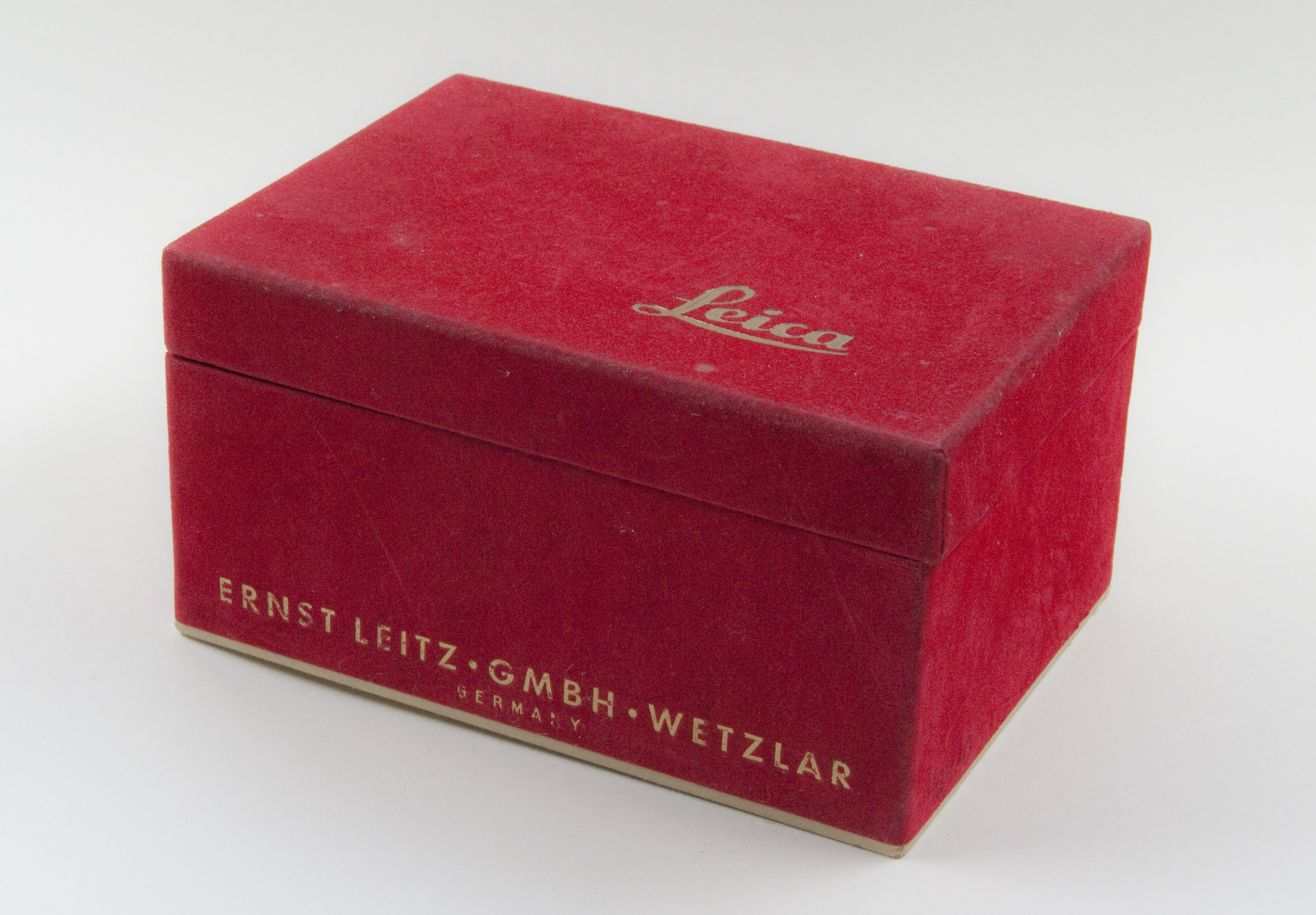 Leica M3 wrapping